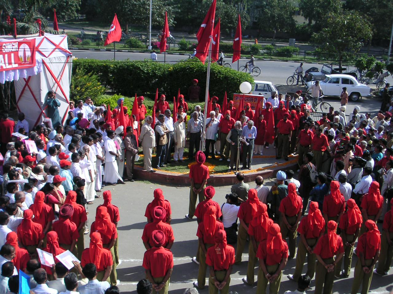 Inauguration of the 18th Congress of the Communist Party of India, Chandigarh, 2005.